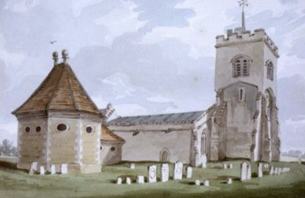 Ailesbury Mausoleum, situated within the churchyard of St Mary's Church, Maulden, in Bedfordshire, is a grade II* listed structure built in 1656 by Thomas Bruce, 1st Earl of Elgin (1599–1663) (father by his 1st wife of Robert Bruce, 1st Earl of Ailesbury (1626-1685)), of nearby Houghton House in the parish of Maulden, for the purpose of housing the coffin and "splendid monument"[1] of his second wife, Lady Diana Cecil (d.1654), a daughter of William Cecil, 2nd Earl of Exeter and widow of Henry de Vere, 18th Earl of Oxford.